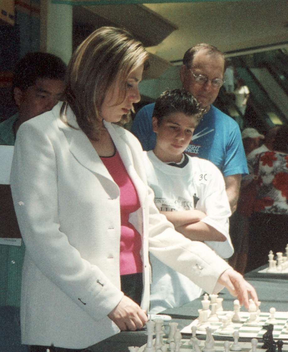 I took this picture at a simal she played.